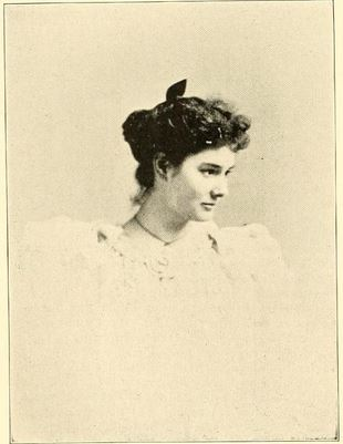 Katherine McRae